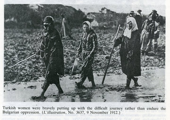 Turkish women were bravely putting up with the difficult journey rather than endure the Bulgarian oppression